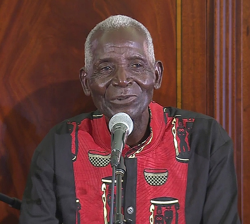 Gidesi Chalamanda (born 1930), is most commonly known as "Giddes" He is a Malawian acoustic artist.